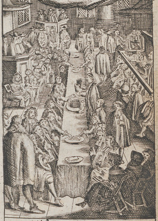 This file has been extracted from another file: Avontmael des Heeren.jpg